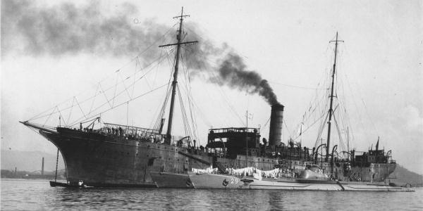 Submarine tender Karasaki with submarines I-61a and I-62 (later I-162) in the Seto Inland Sea, circa 1930